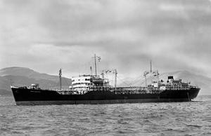 RFA WAVE MASTER underway